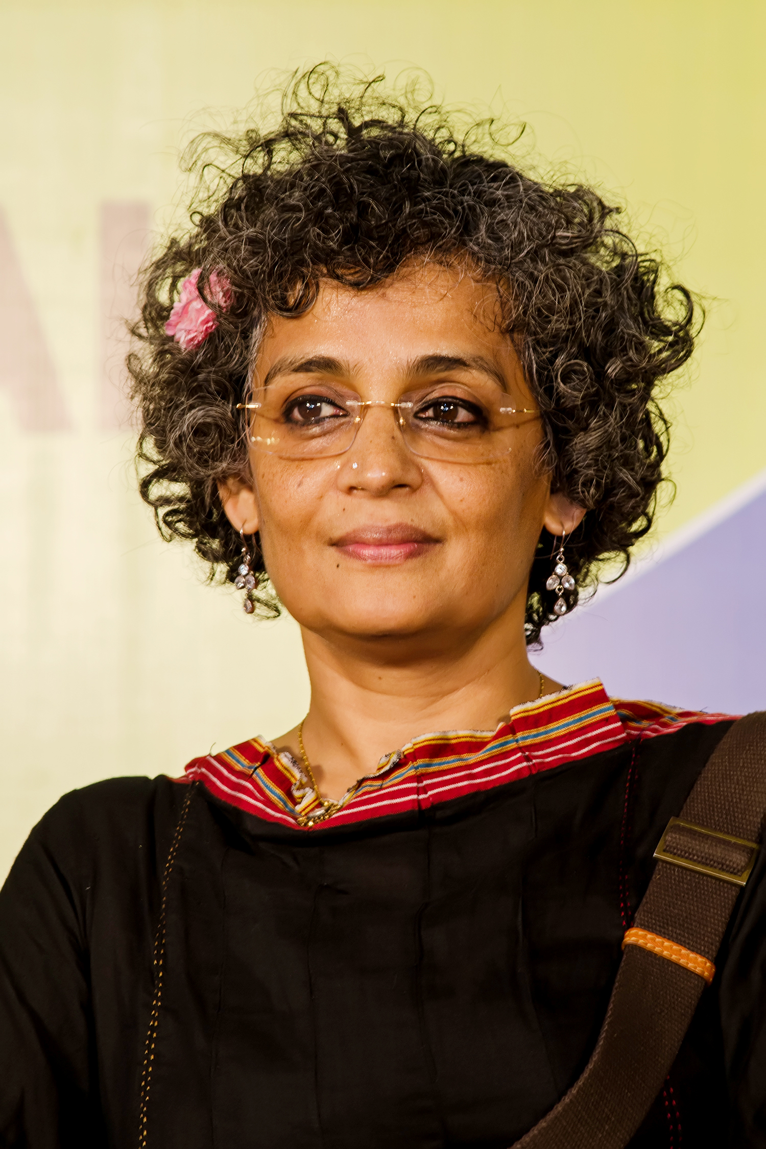 Arundhathi Roy in 2013